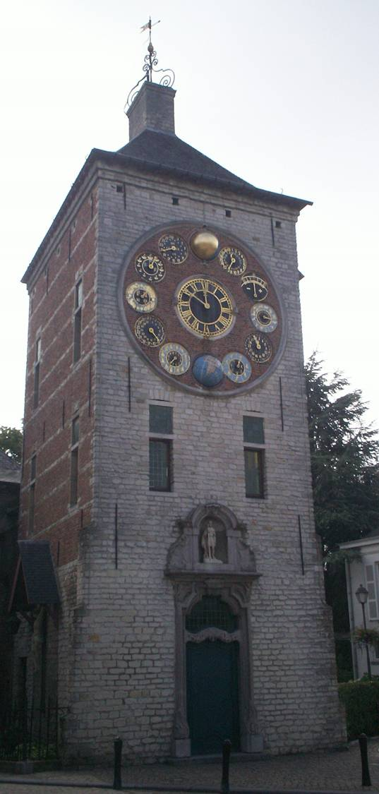 Zimmer tower at Lier, Belgium.